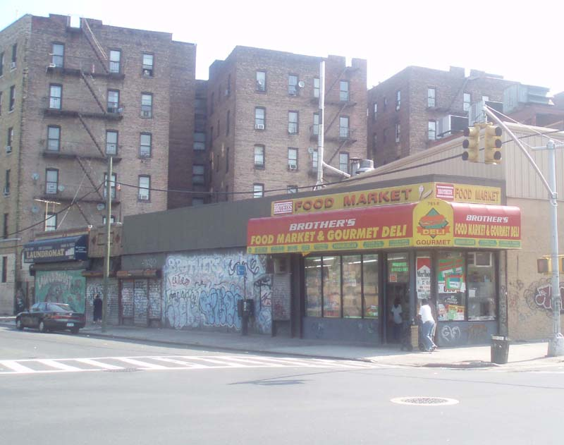 Looking east across E182 St and Prospect Ave.